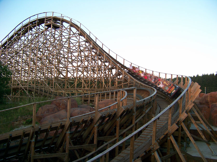 El Toro the wooden roller coaster in the amusement park Plohn.